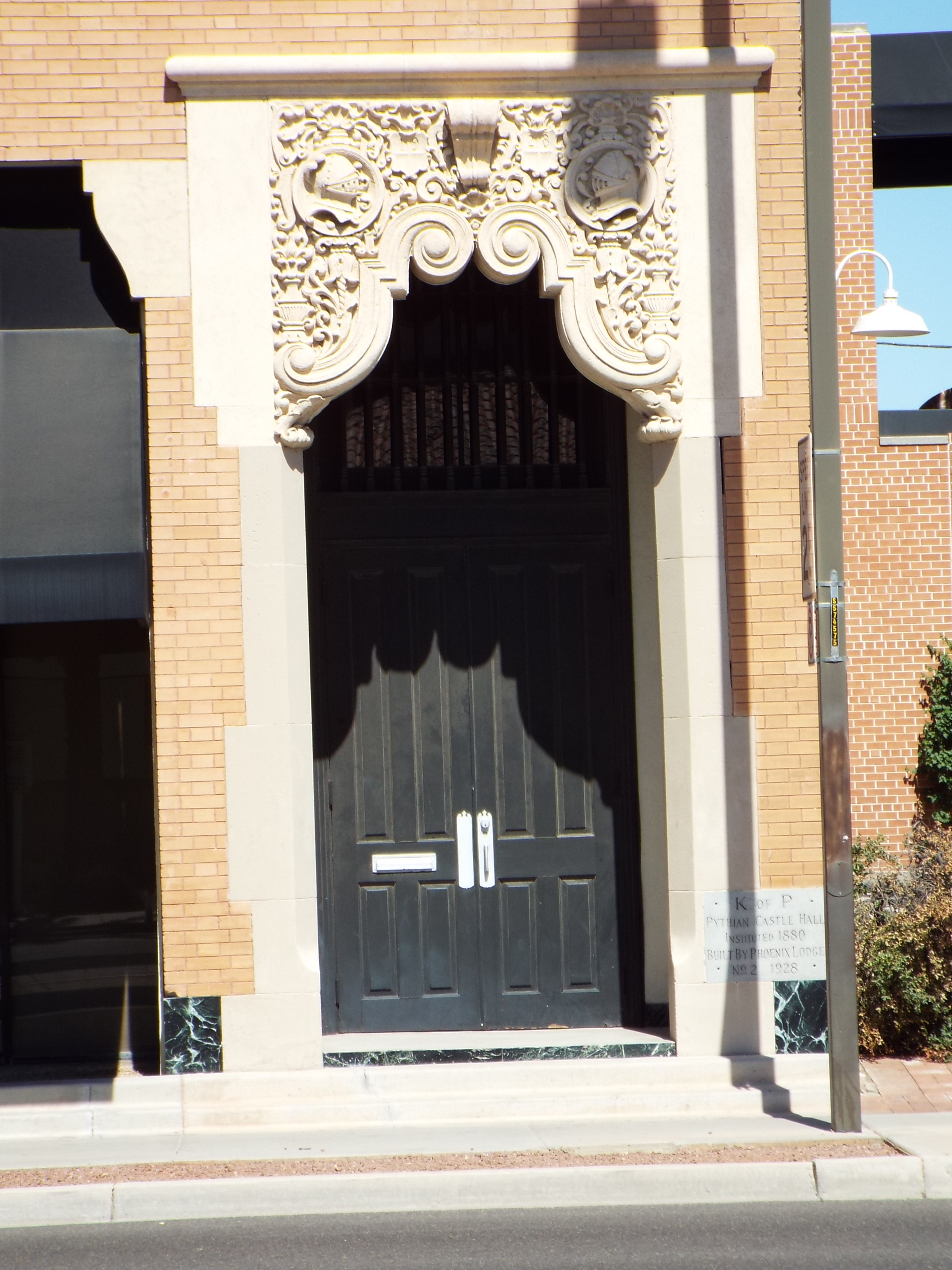 Front entrance of the Knights of Pythias Building. The main structure was built in 1928 and is located in 146 E. Washington St.. It is Listed in the National Register of Historic Places, reference: #85002063